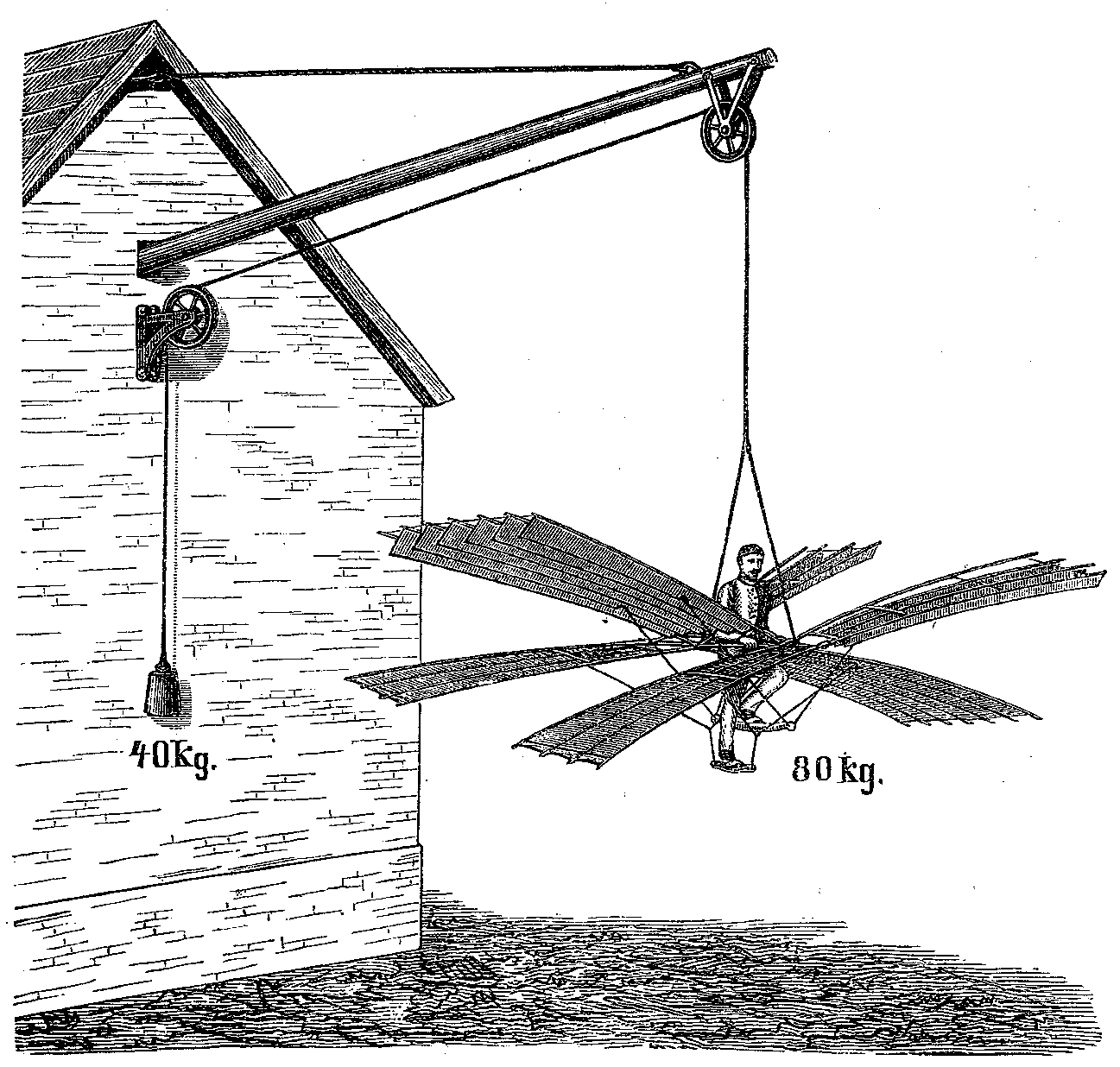 Measurements of wing flapping, 1868; woodcut published in: Otto Lilienthal: Der Vogelflug als Grundlage der Fliegekunst, 1889, and Birdflight as the Basis of Aviation, 1911, fig. 10